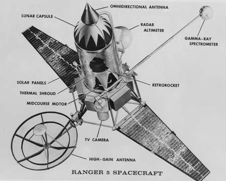 Range 5 spacecraft diagram. Ranger V satellite for use at the parade of progress show at the public hall, Cleveland Ohio